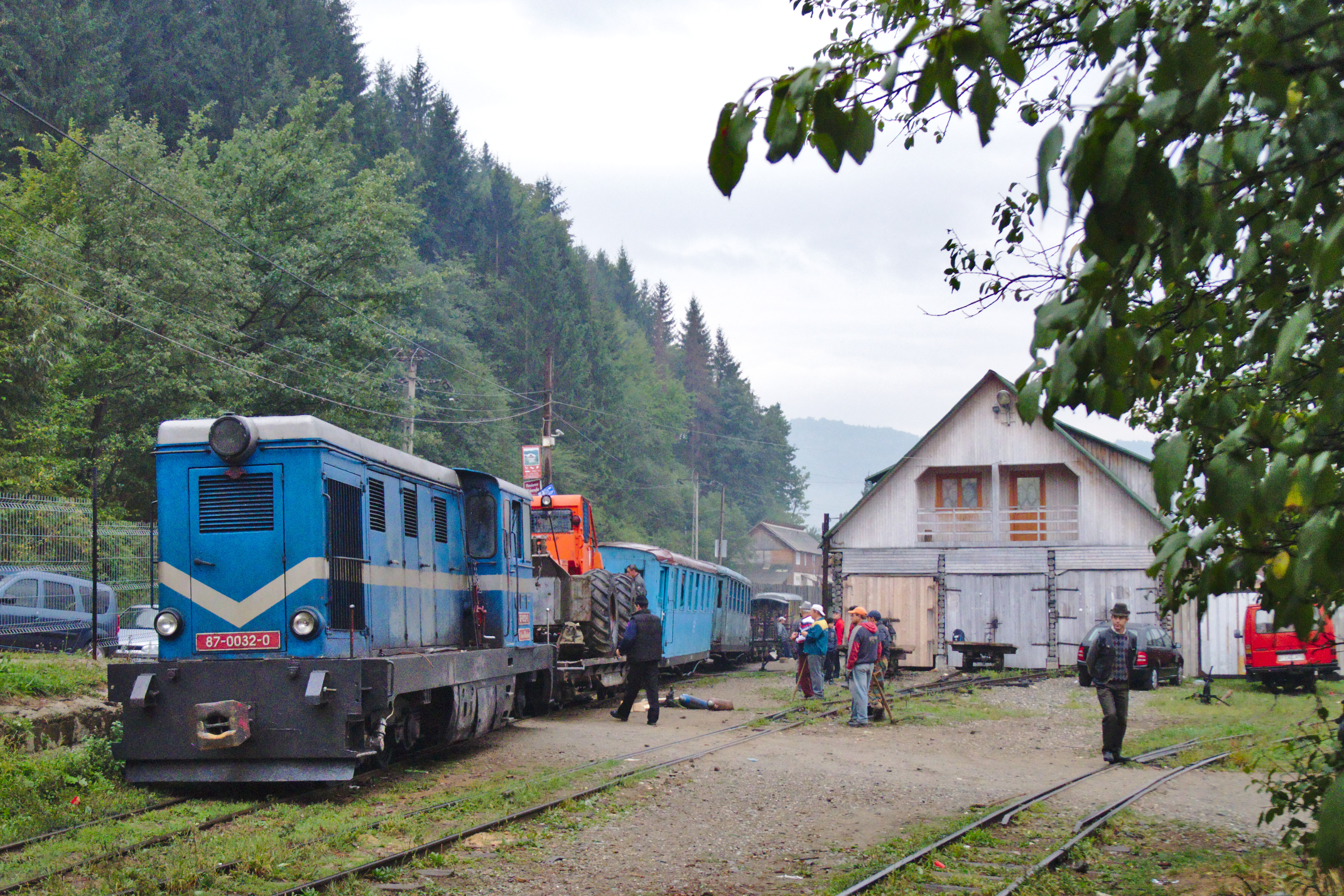 87 0032 with a regular train ready to depart from Vișeu de Sus.